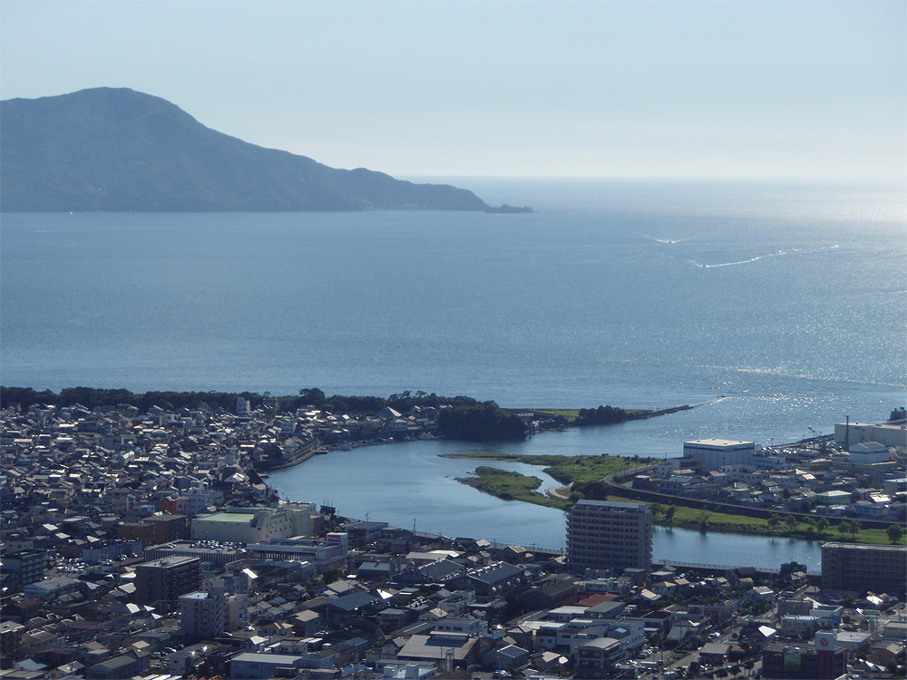 Mouth of Kano River in Numazu Shizuoka Prefecture, Japan. Taken from Mount Kanuki.